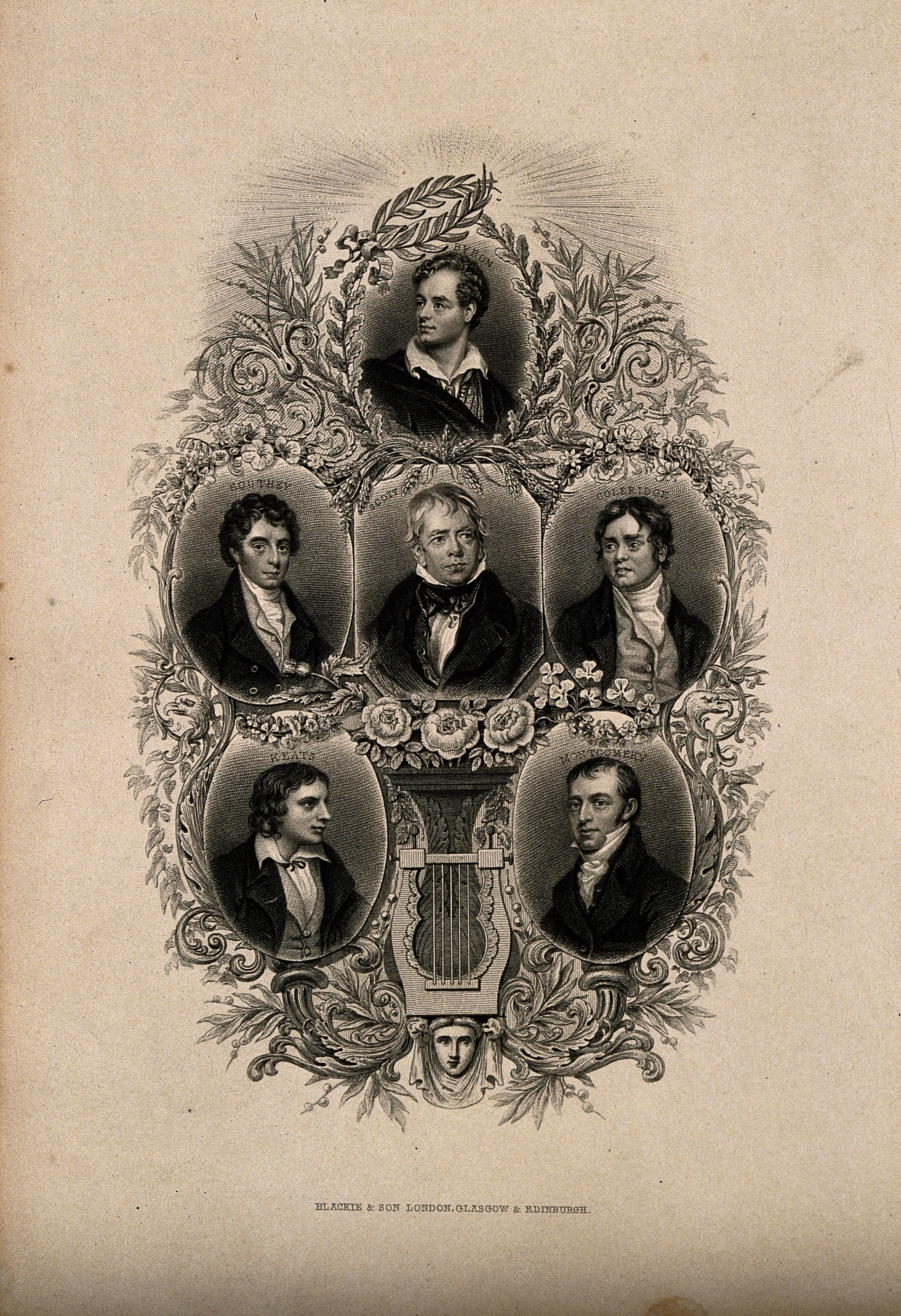 Six poets: Robert Montgomery, John Keats, Lord Byron, Walter Scott, Robert Southey and Samuel Taylor Coleridge. Engraving. Iconographic Collections Keywords: Robert Montgomery; Samuel Taylor Coleridge; George Gordon Byron; Walter Scott; John Keats; Robert Southey